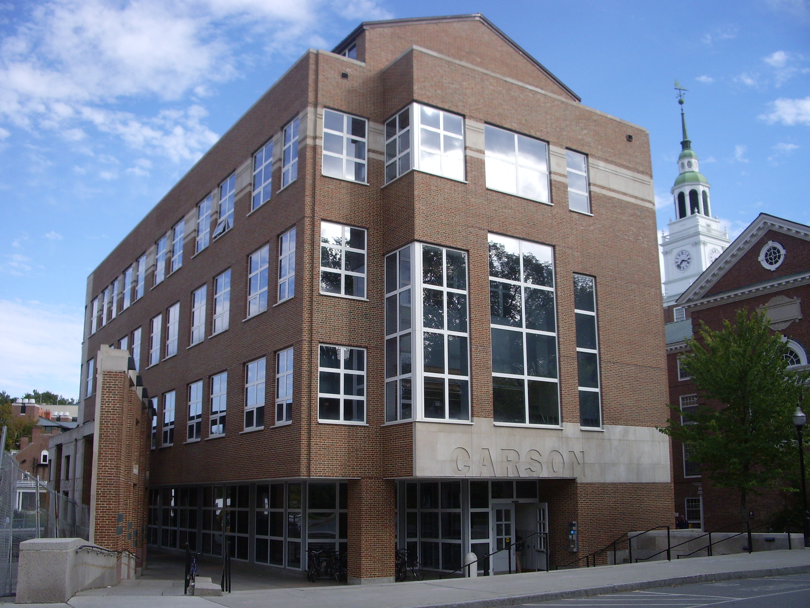 Photograph of Carson Hall at the campus of Dartmouth College in Hanover, New Hampshire.